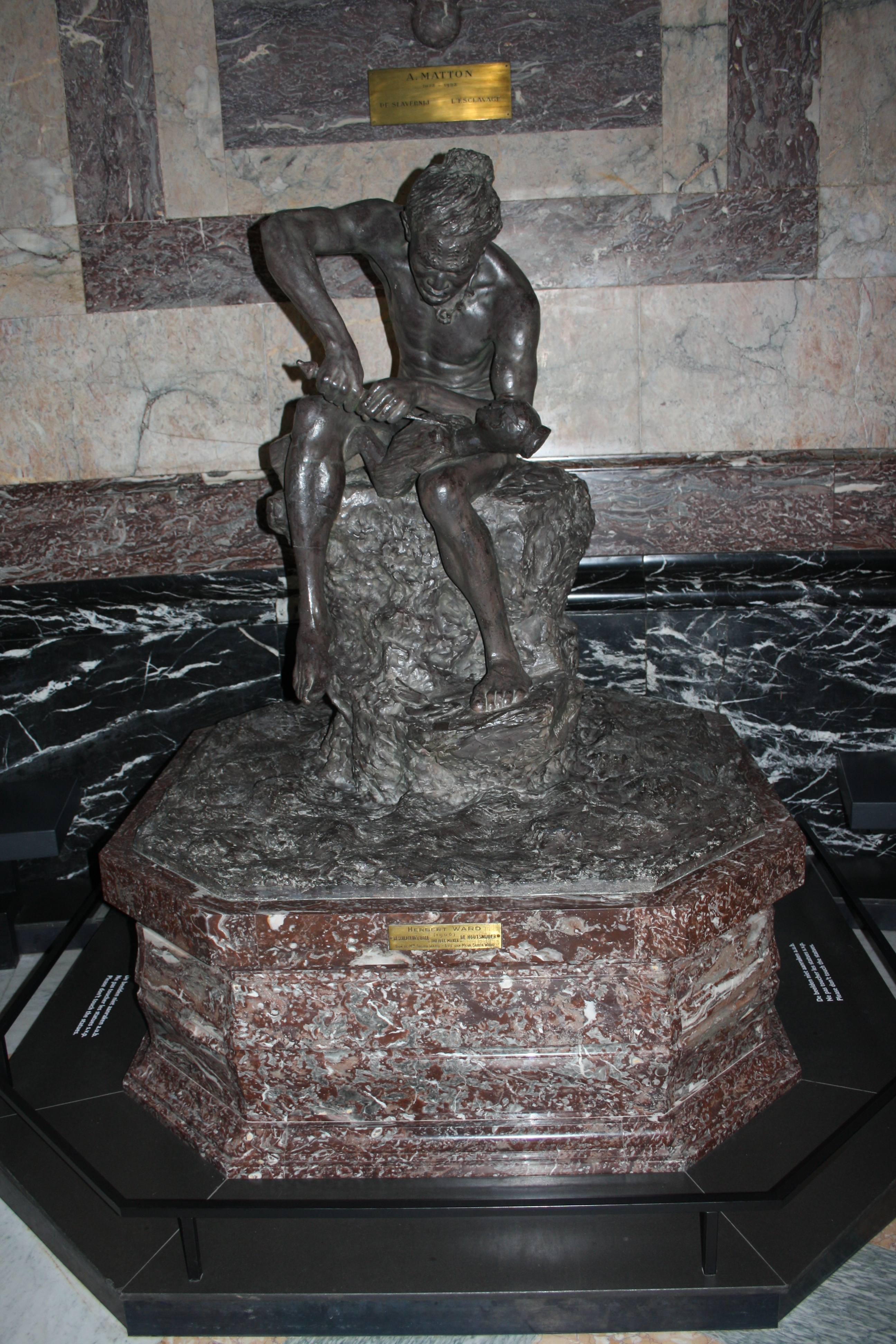 Sculpture The Idol Maker by Herbert Ward in the hall of the Royal Museum for Central Africa, Tervuren, Belgium.